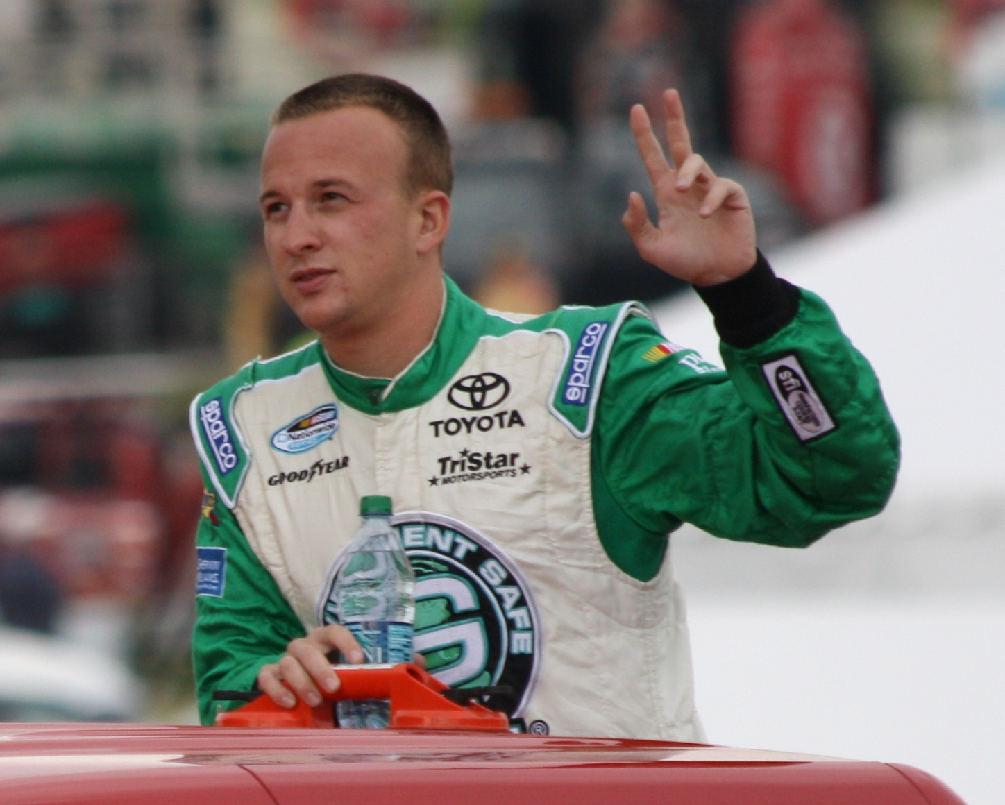 NASCAR driver Tayler Malsam during driver's introductions at the 2012 Sargento 200 Nationwide Series race at Road America.